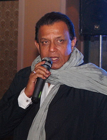 Otabek Mahkamov and Mithun Chakraborty